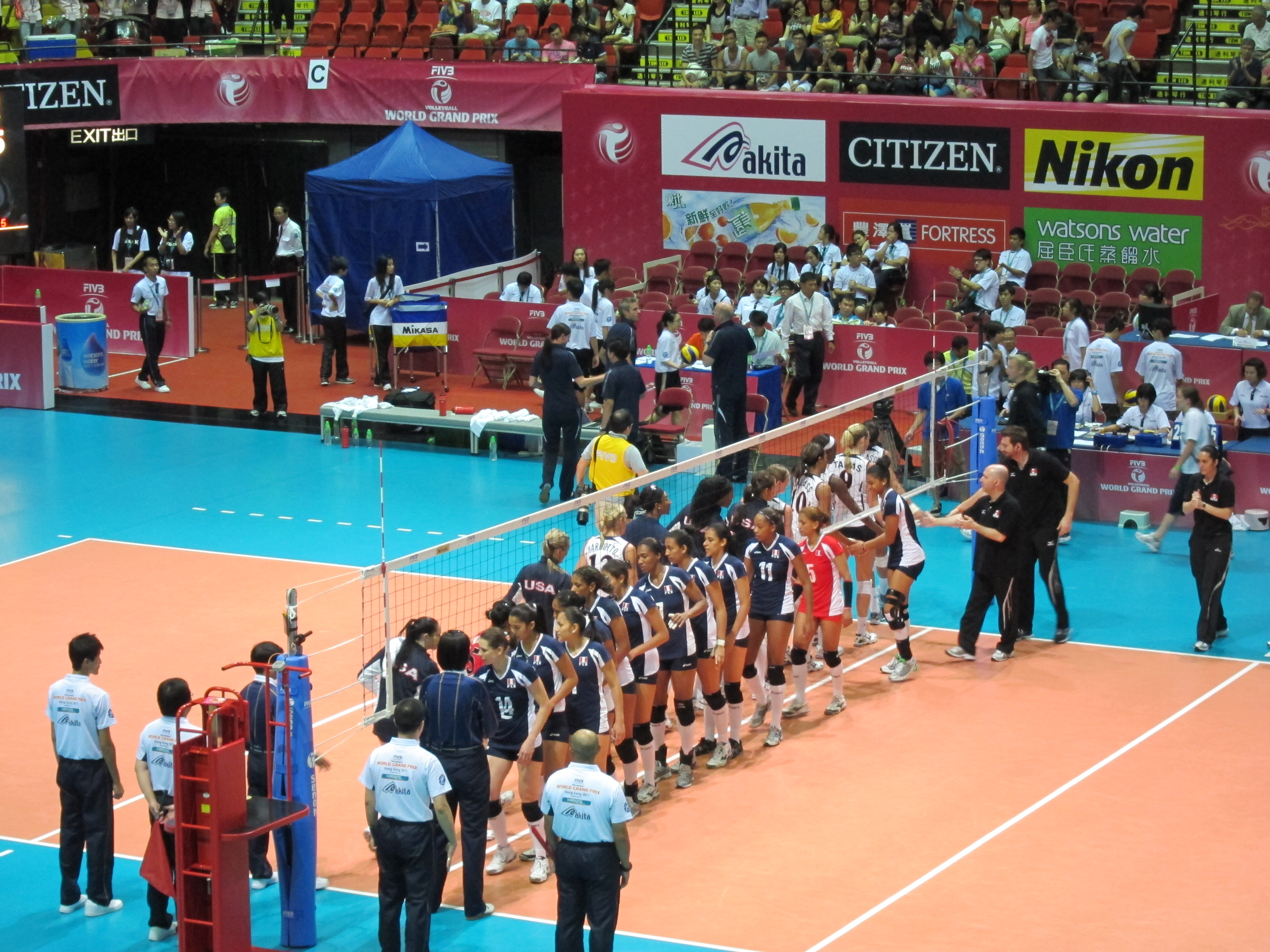 Team: Peru women's national volleyball team Event: 2011 World Grand Prix Venue: HONG KONG Stadium Date: 2011-08-21(SUN) Match vs: USA